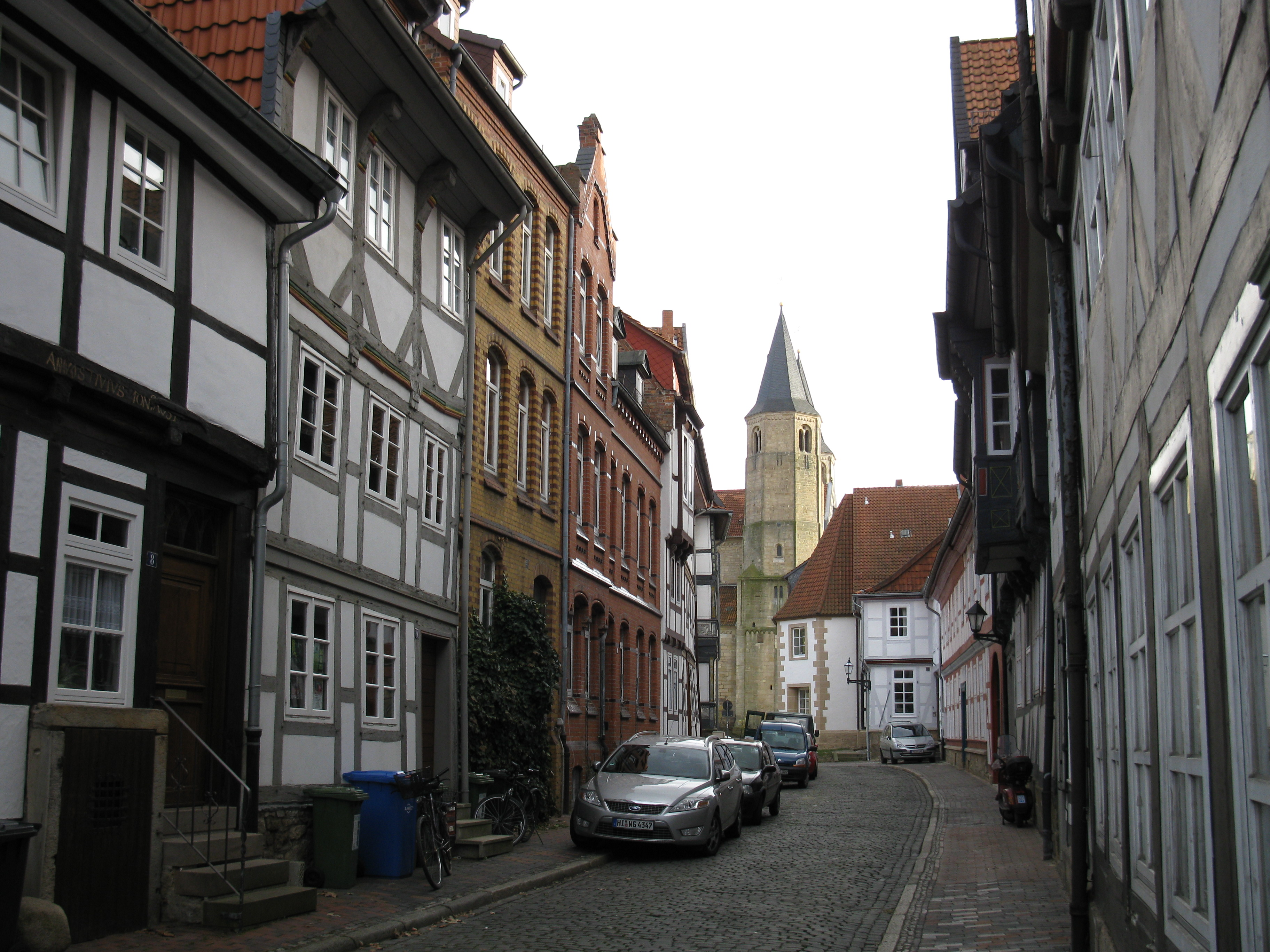 Hinterer Brühl Street, Hildesheim